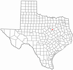 maps by Seth Ilys, showing location of Hillsboro in US state of Texas.